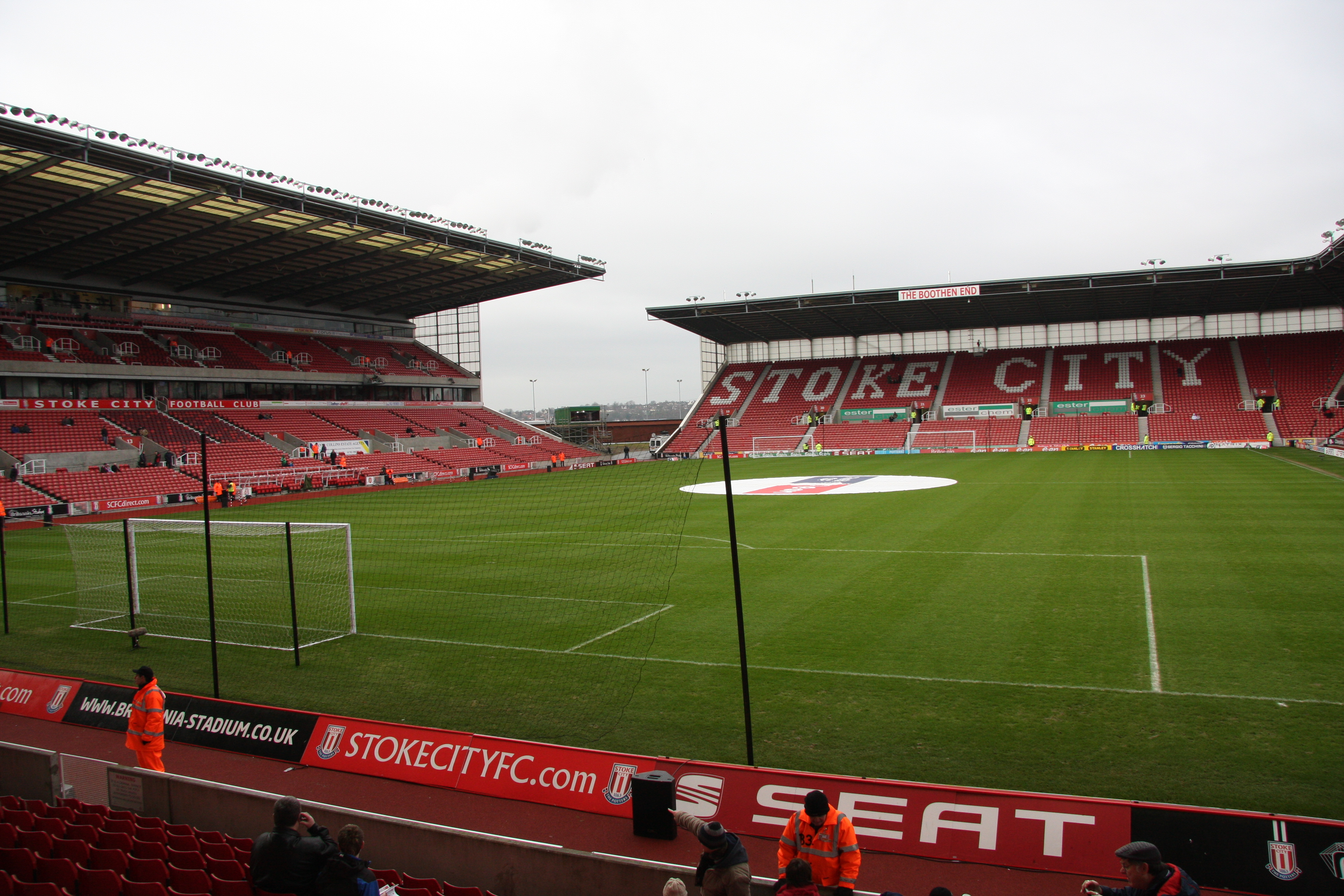 Stoke City FC V Arsenal 09